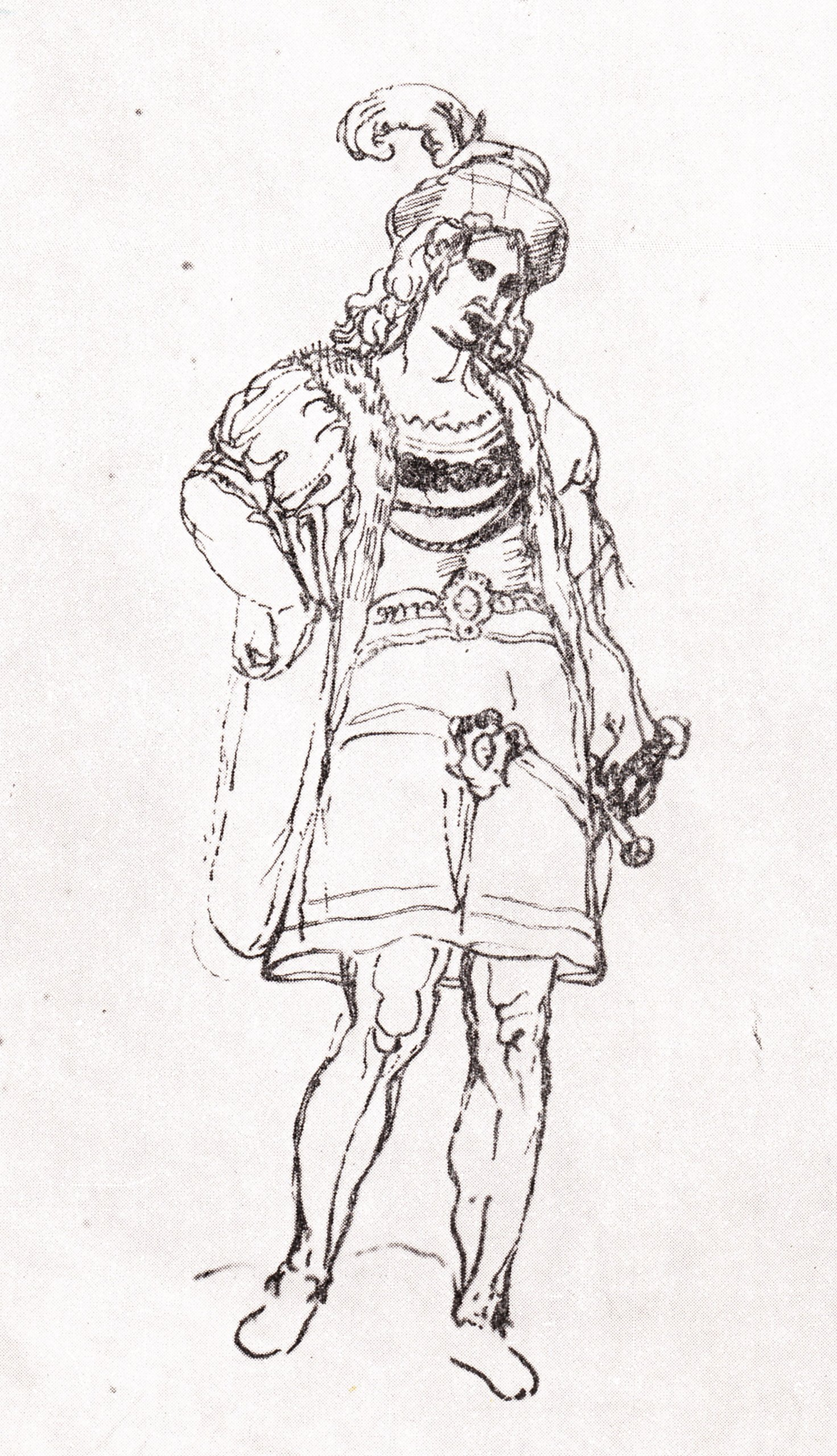 Simon II Gurieli - the first husband of Miriam Dadiani. A sketch by the Catholic missionaire Don Cristoforo De Castelli.